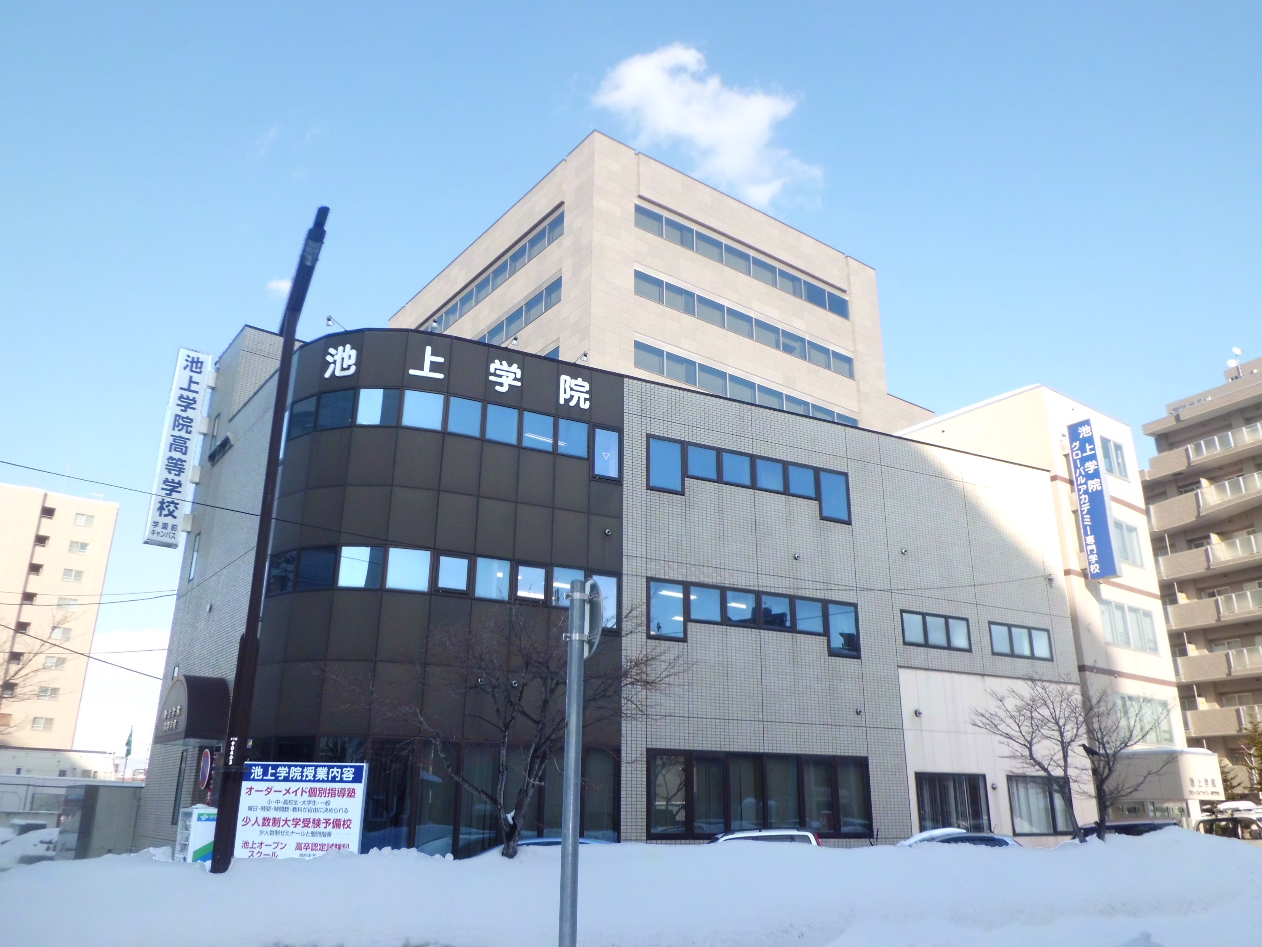 Ikegami Gakuin in Toyohira, Toyohira-ku, Sapporo city, Hokkaido.